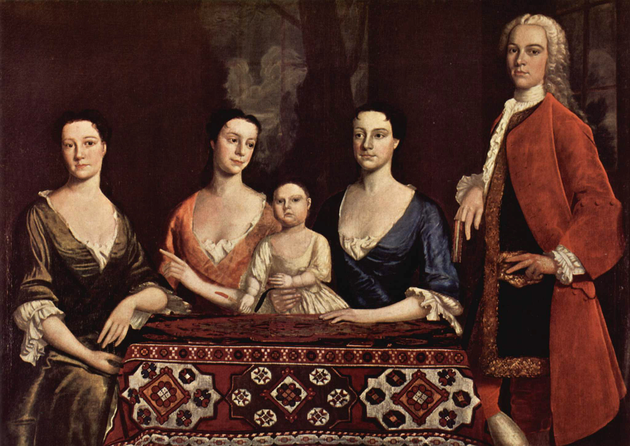 Three-quarter length standing figure of Royall, with (left to right, seated) his sister Penelope Royall (Vassall), his sister-in-law Mary McIntosh Palmer, his daughter Elizabeth, and his wife (also Elizabeth nee McIntosh). Signed and dated on back: Finished Sept. 15, 1741 by Robert Feke